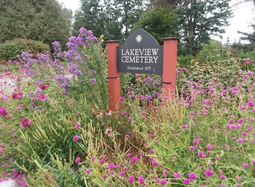 Entrance to Lakeview Cemetery, a rural cemetery in Burlington, Vermont, which was established in 1867.